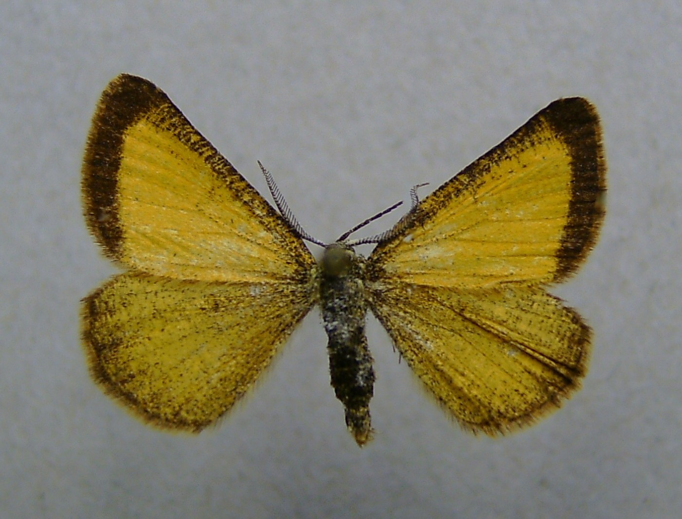 Isturgia limbaria, Dörscheid, Middle Rhine, Germany